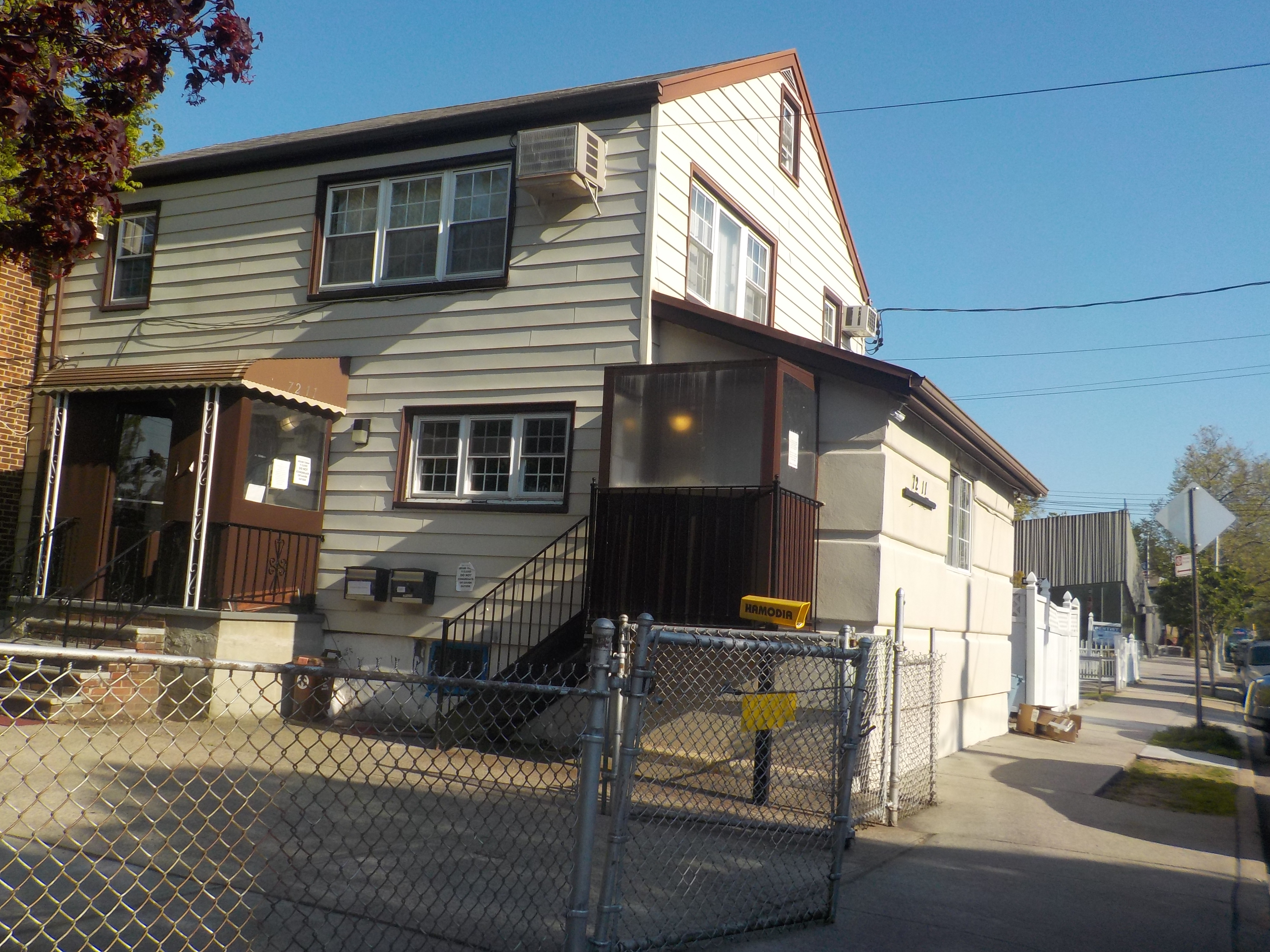 Yeshiva Keser Torah, Orthodox synagogue in Kew Gardens Hill, May 2020